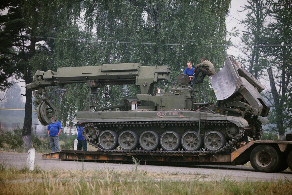 “Wildfires in Moscow Region's Lukhovitsky district”. An armoured engineering vehicle (IMR) used by the Moscow Military District to fight wildfires in the Moscow Region's Lukhovitsky district.